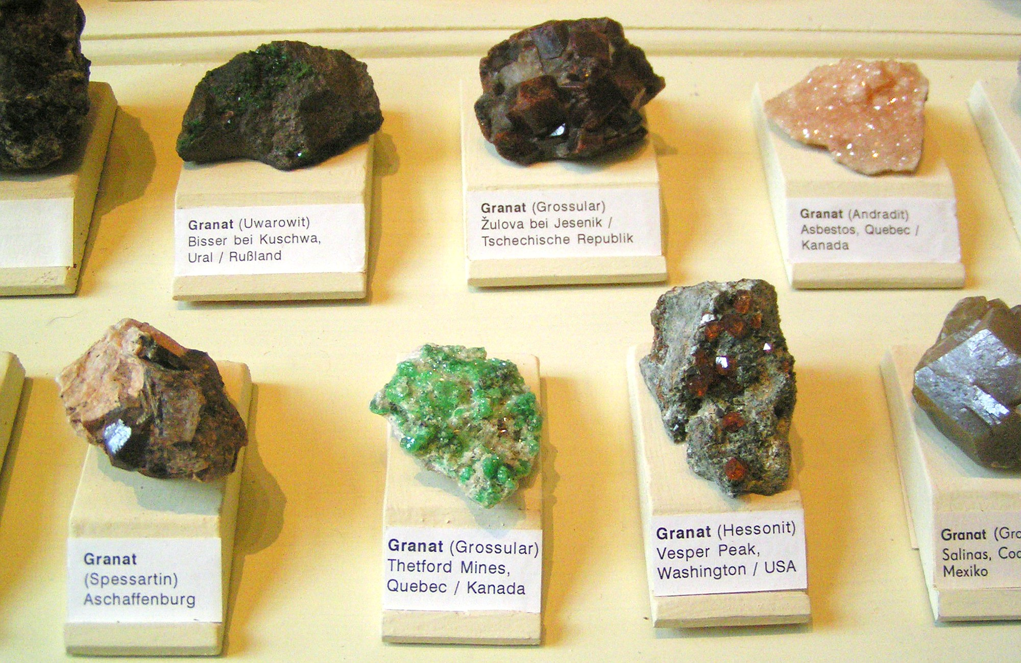 Minerals at the Museum für Naturkunde in Berlin, Germany Source: taken by me, 12.03.2005